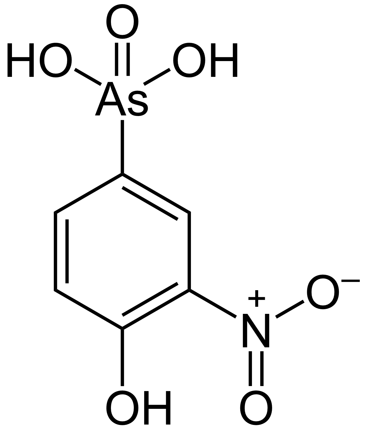 Chemical structure of roxarsone